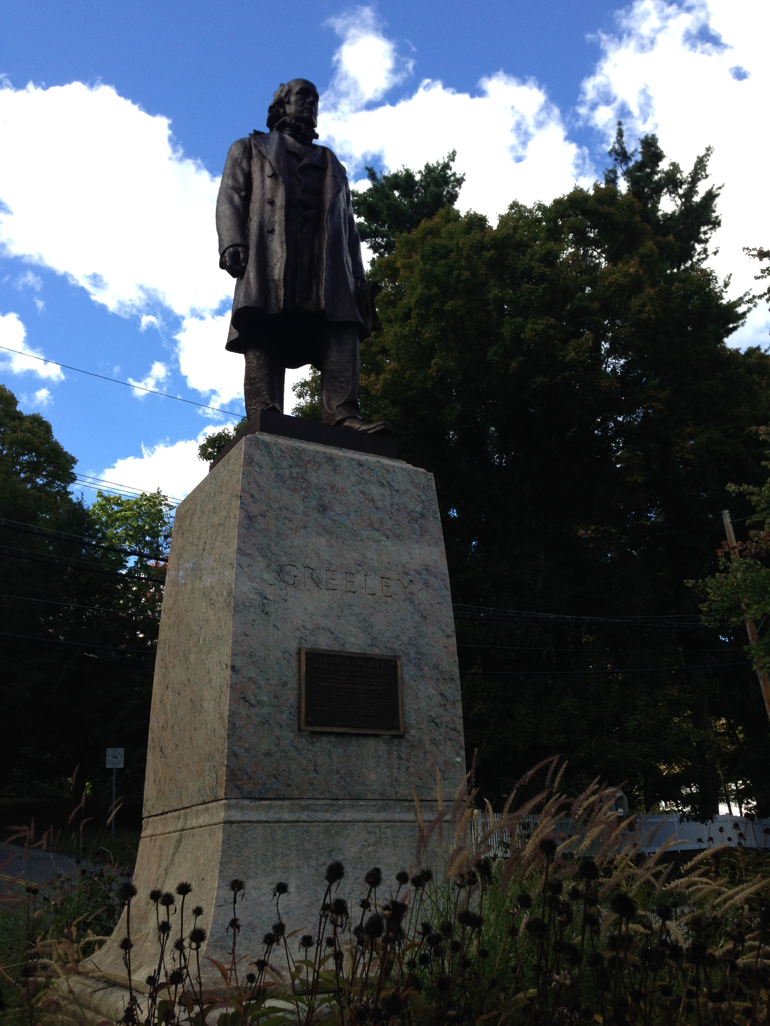 Statue of Horace Greeley located in Chappaqua, New York.